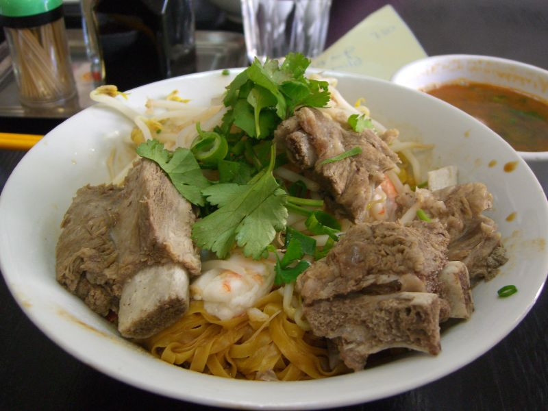 Prawn and Pork Rib Tossed Noodles - Singapore Chom Chom